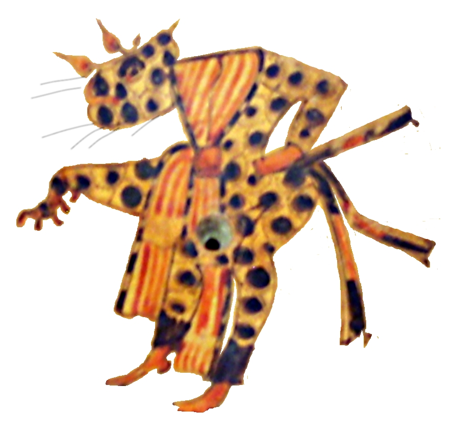 Representation of the Water Lily Jaguar deity from Classic period Maya mythology, from a ceramic plate in the collection of the Museum of the Americas, Madrid.